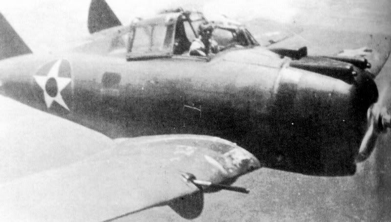 34th Pursuit Squadron Seversky P-35 in combat over the Philippines, 1941.